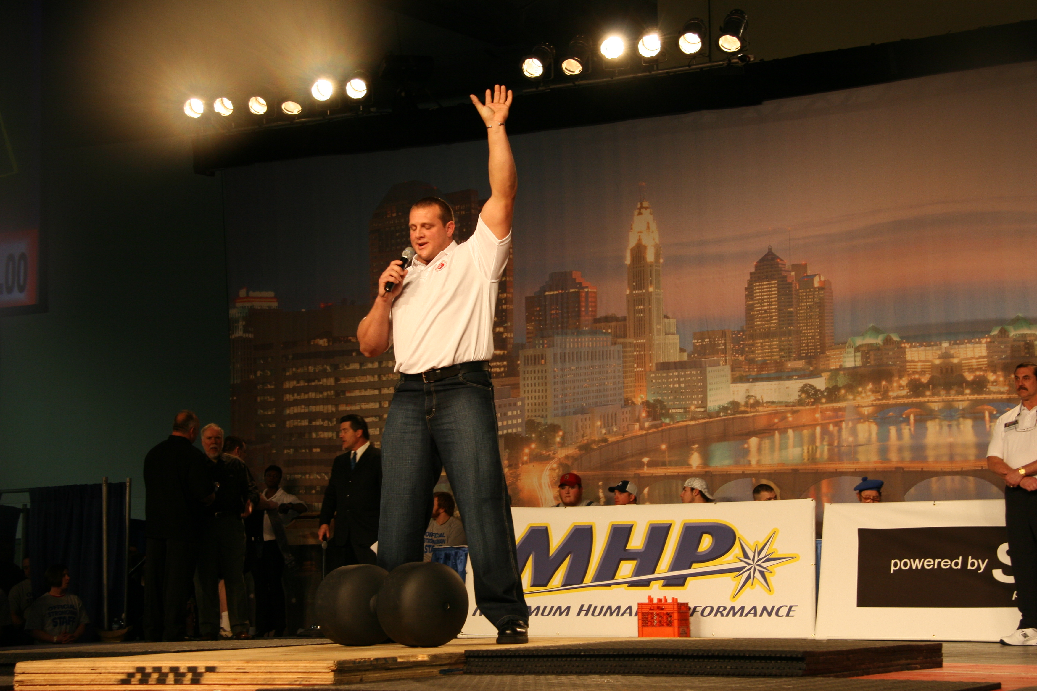 Travis Ortmayer